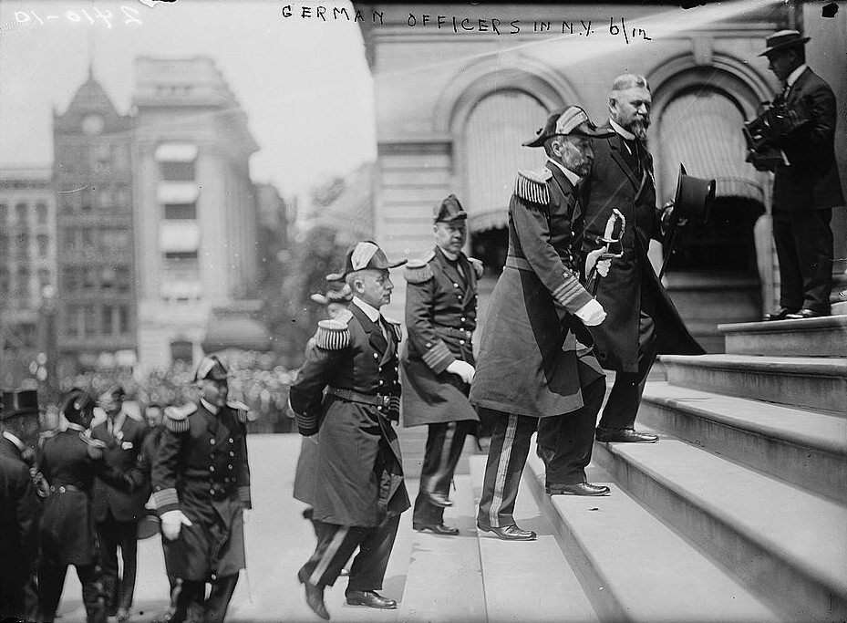 Officers of the German Imperial Navy in New York City in June 1912. Rear admiral Hubert von Rebeur-Paschwitz commanded a squadron consisting of the battlecruiser SMS Moltke, the cruisers SMS Stettin and SMS Bremen which visited Hampton Roads/Norfolk, Virginia, and New York City.